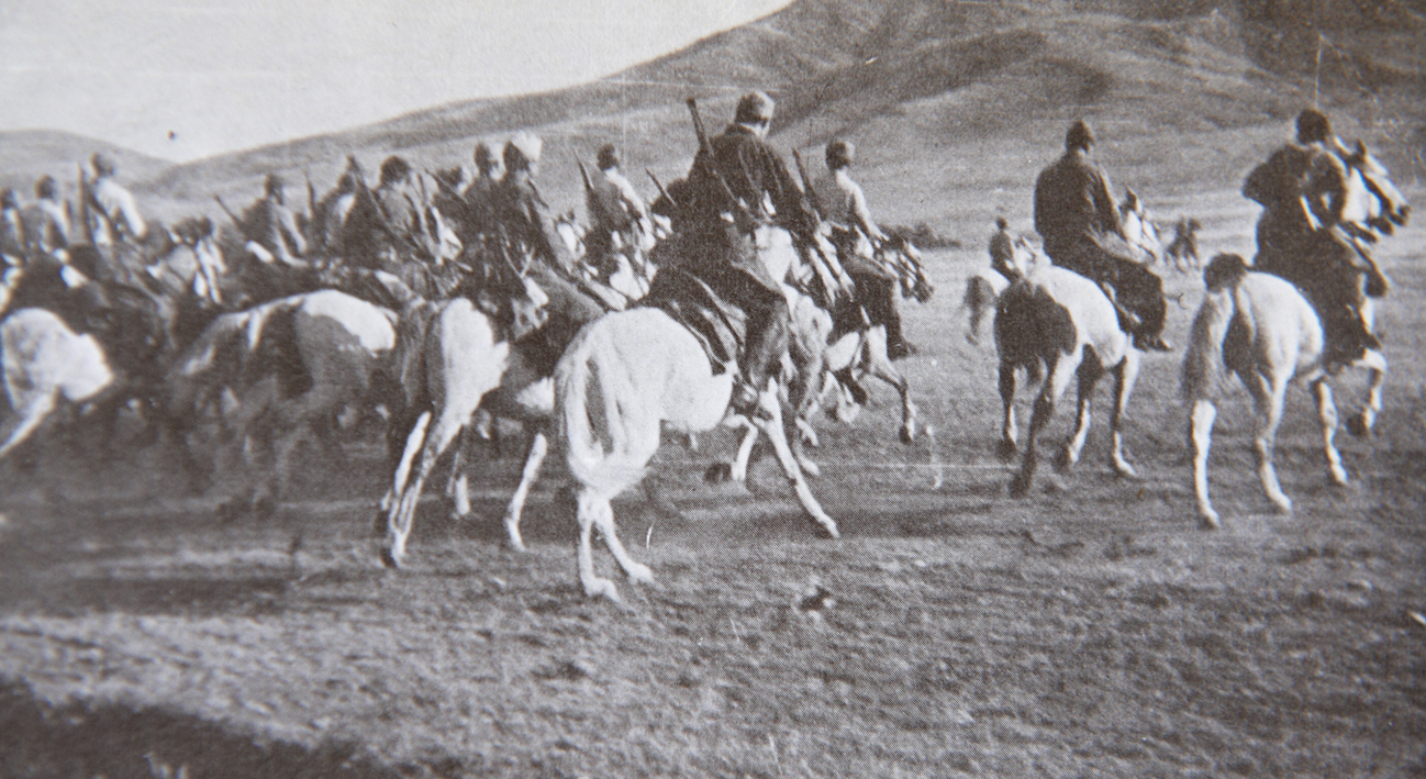 Cavalry brigade of the Greek People”s Liberation Army